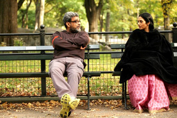 Producer R. Balki with actress Sridevi on sets of the film English Vinglish.